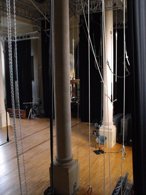 St Paul Bristol (inside, circus training floor) The pillars, circus training floor, ropes and trapezes of Circomedia circus school in St Paul Bristol. A view of the church from the west side of Portland Square and links to other details